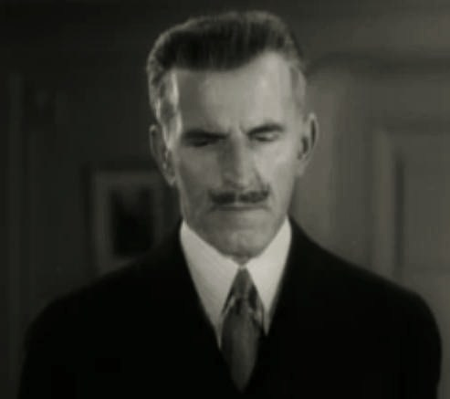 Gustav von Seyffertiz in the American film Mystery Liner (1934) - cropped screenshot